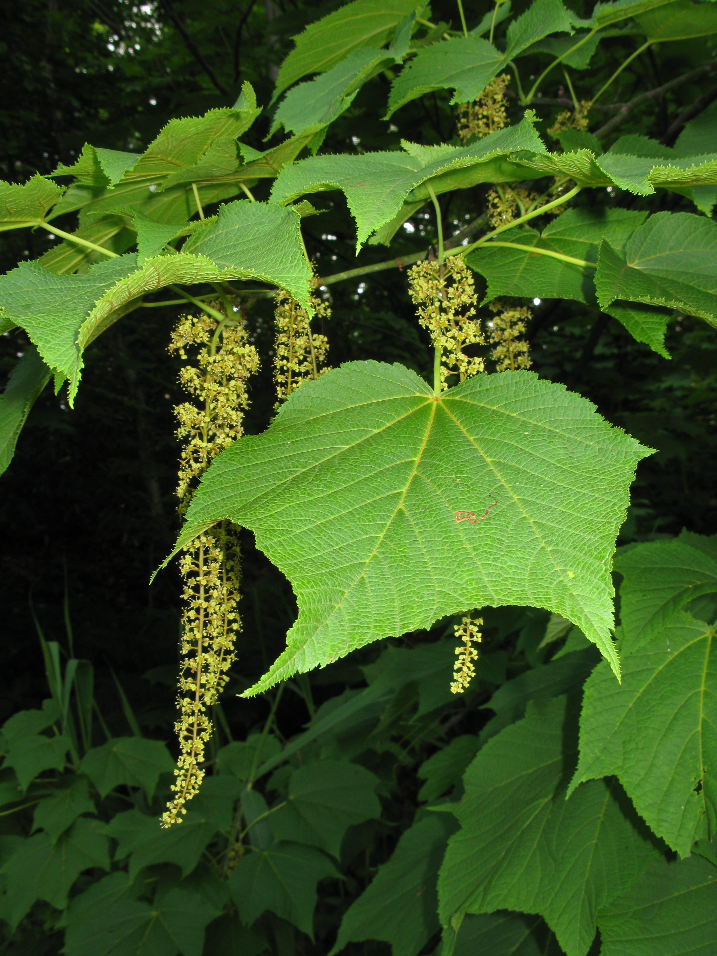 Acer nipponicum, Mount Gassan, Yamagata pref., Japan